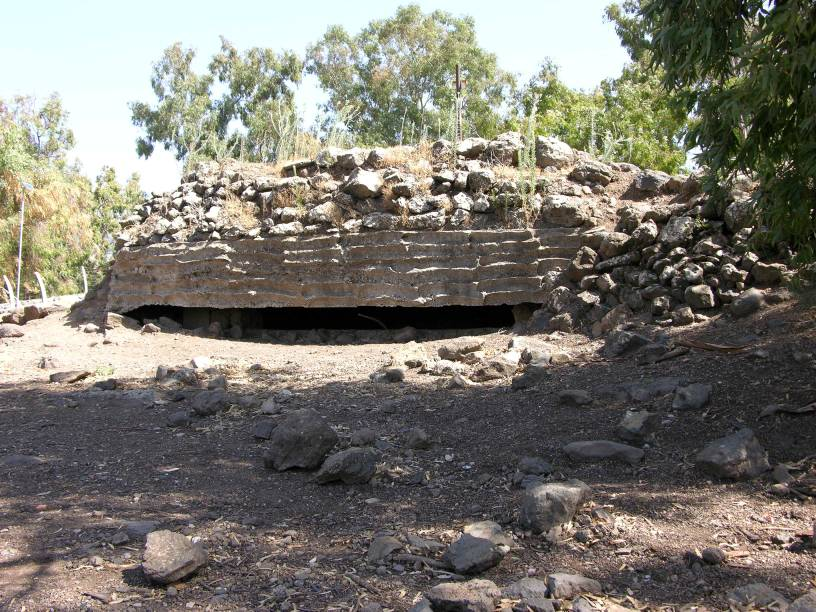 Tel Faher, former Syrian bunker with excellent view of Upper Galilee, was used in the 1960's to shell the farmers working in their fields